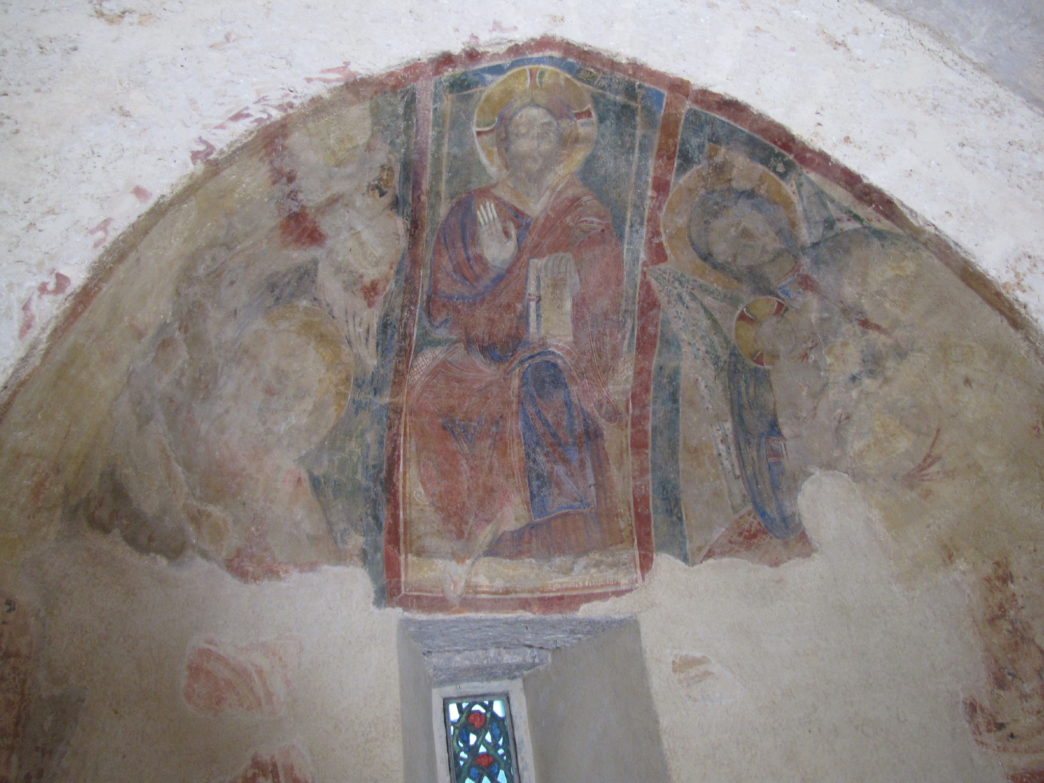 Franciscan sanctuary of Fonte Colombo in Rieti (Lazio, Italy)